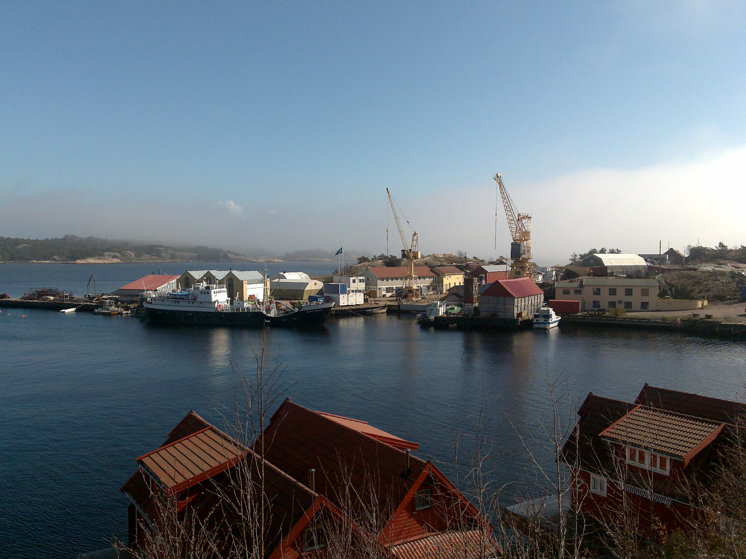 Norsk fartøyvernsenter (Norwegian Conservatory Boat Repair Centre), An¨øya, Kristiansand